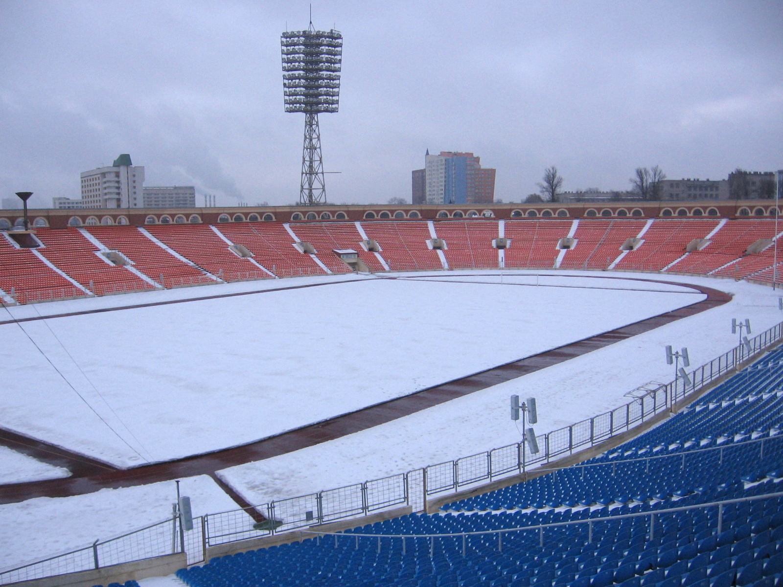 Dynamo stadium in Minsk.